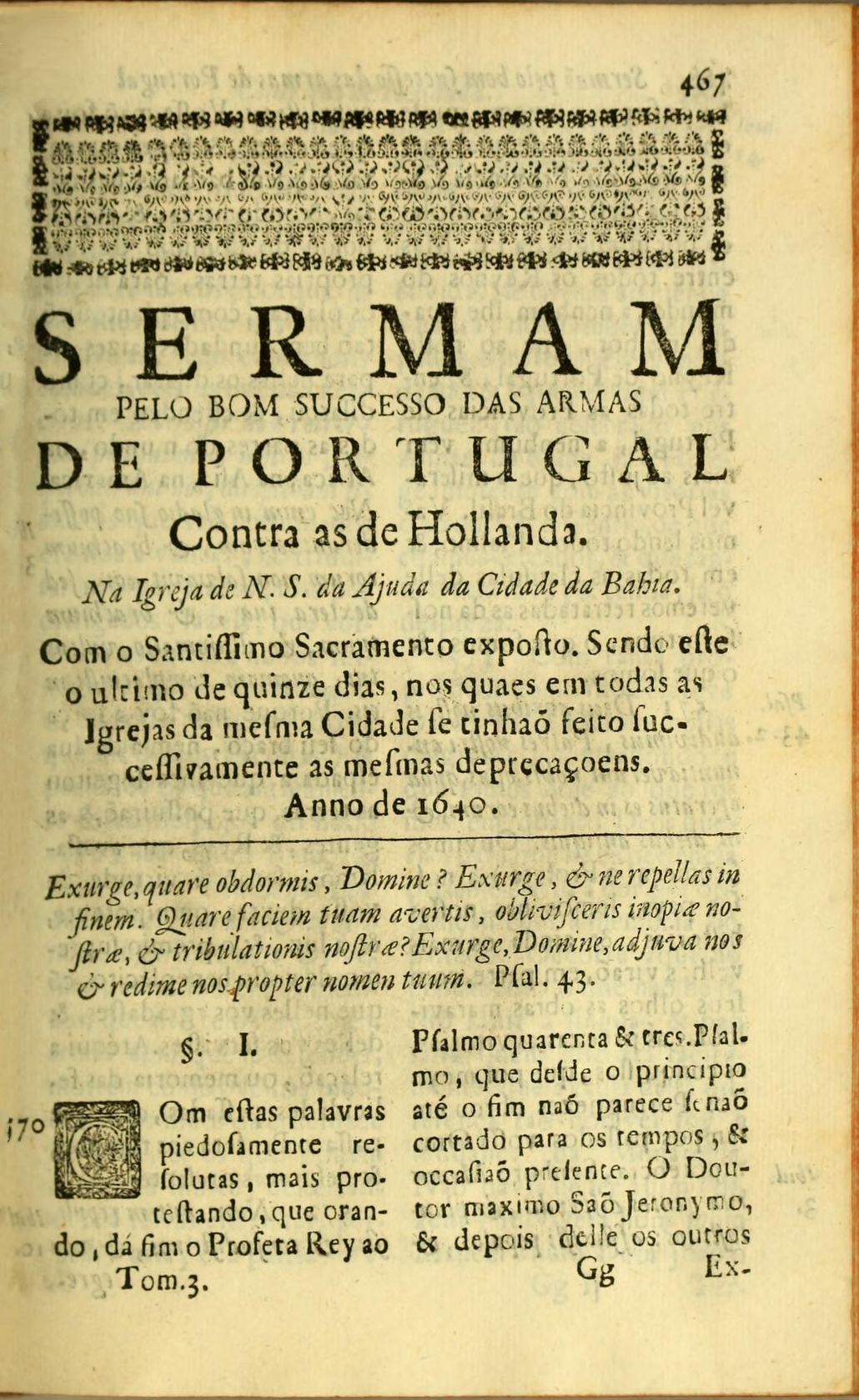 Title page of the first published version of António Vieira's Sermon for the Good Success of the Arms of Portugal Against Those of Holland (preached in 1640), part of a collection of Vieira's sermons published Lisbon, 1683.